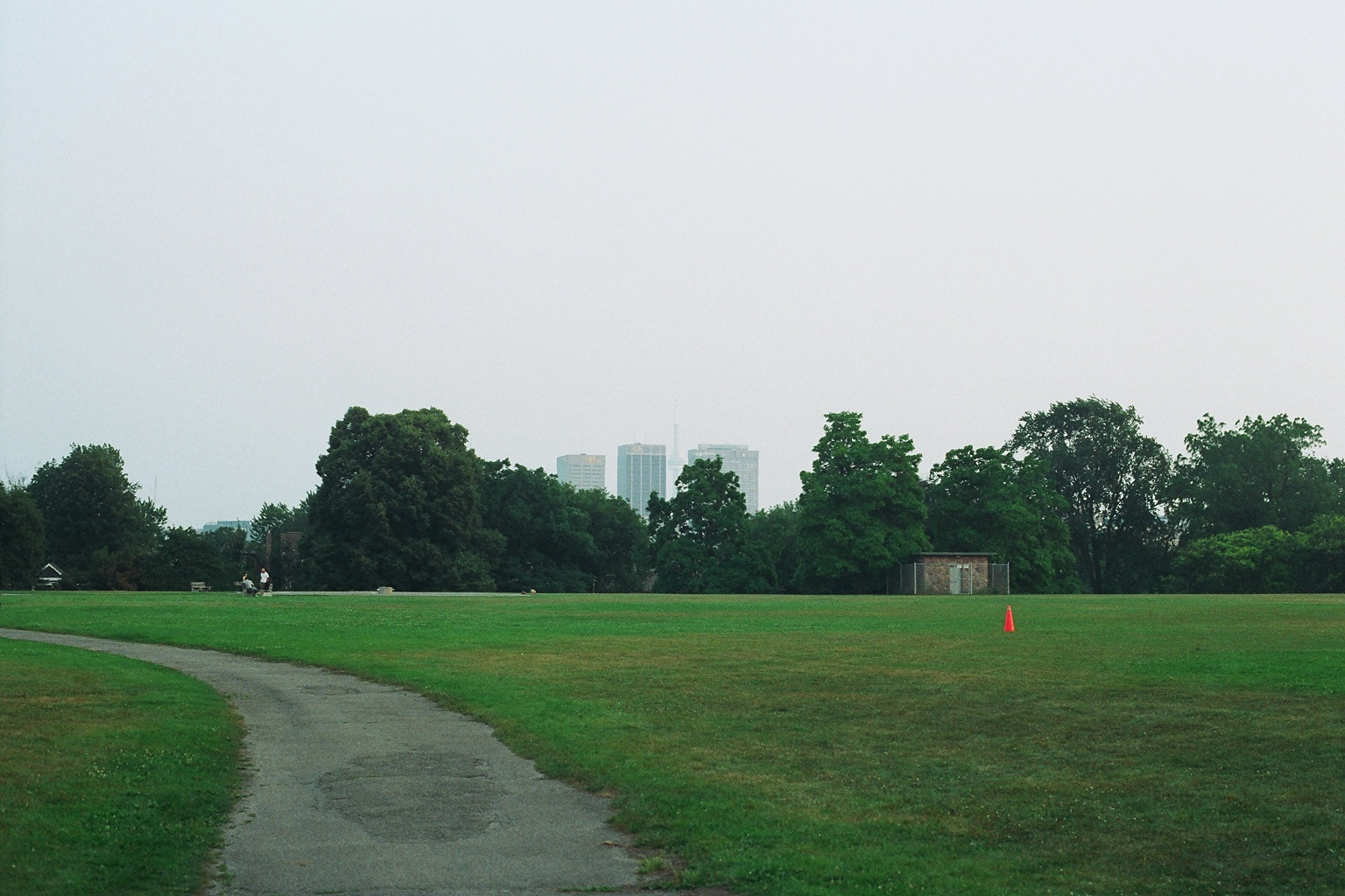 Deer Park, Toronto, Ontario, August 2003. View looking south; David A. Balfour Park. Rosehill Reservoir.